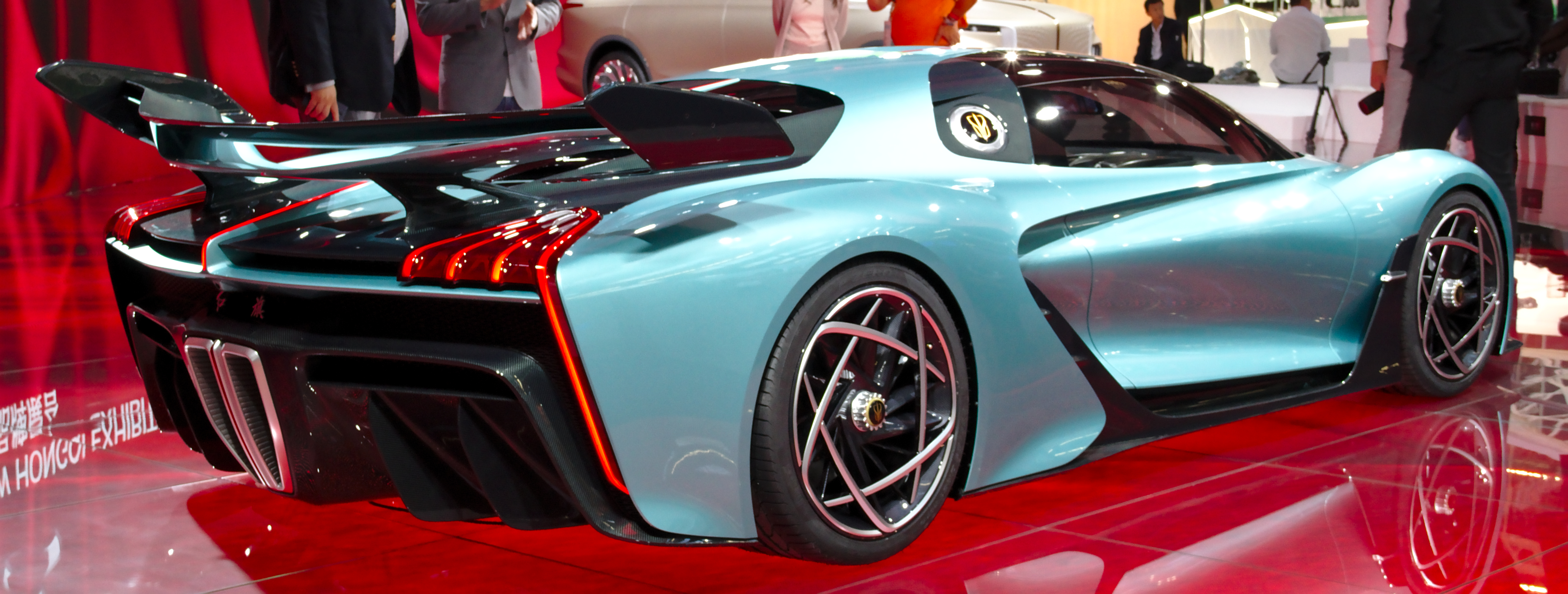 Hongqi_S9 at IAA 2019